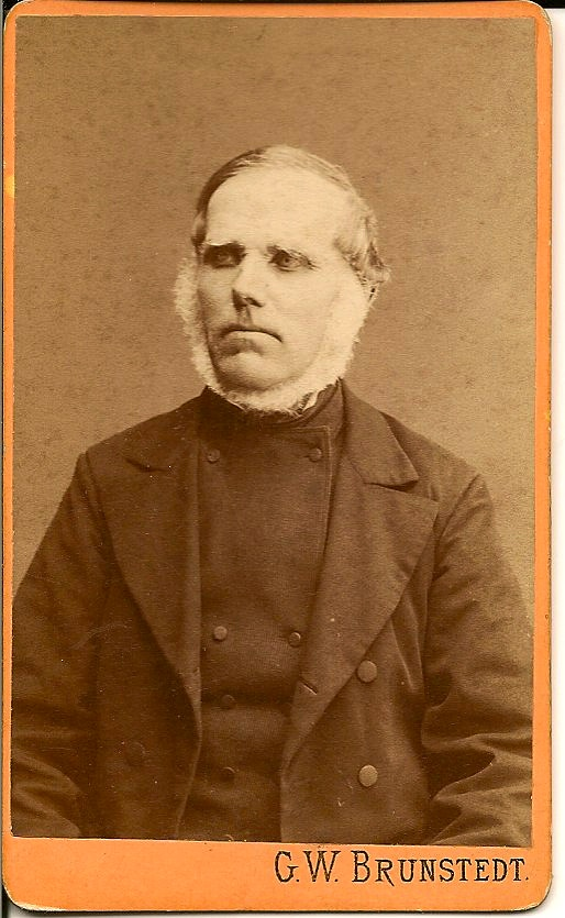 Swedish politician from late nineteenth century